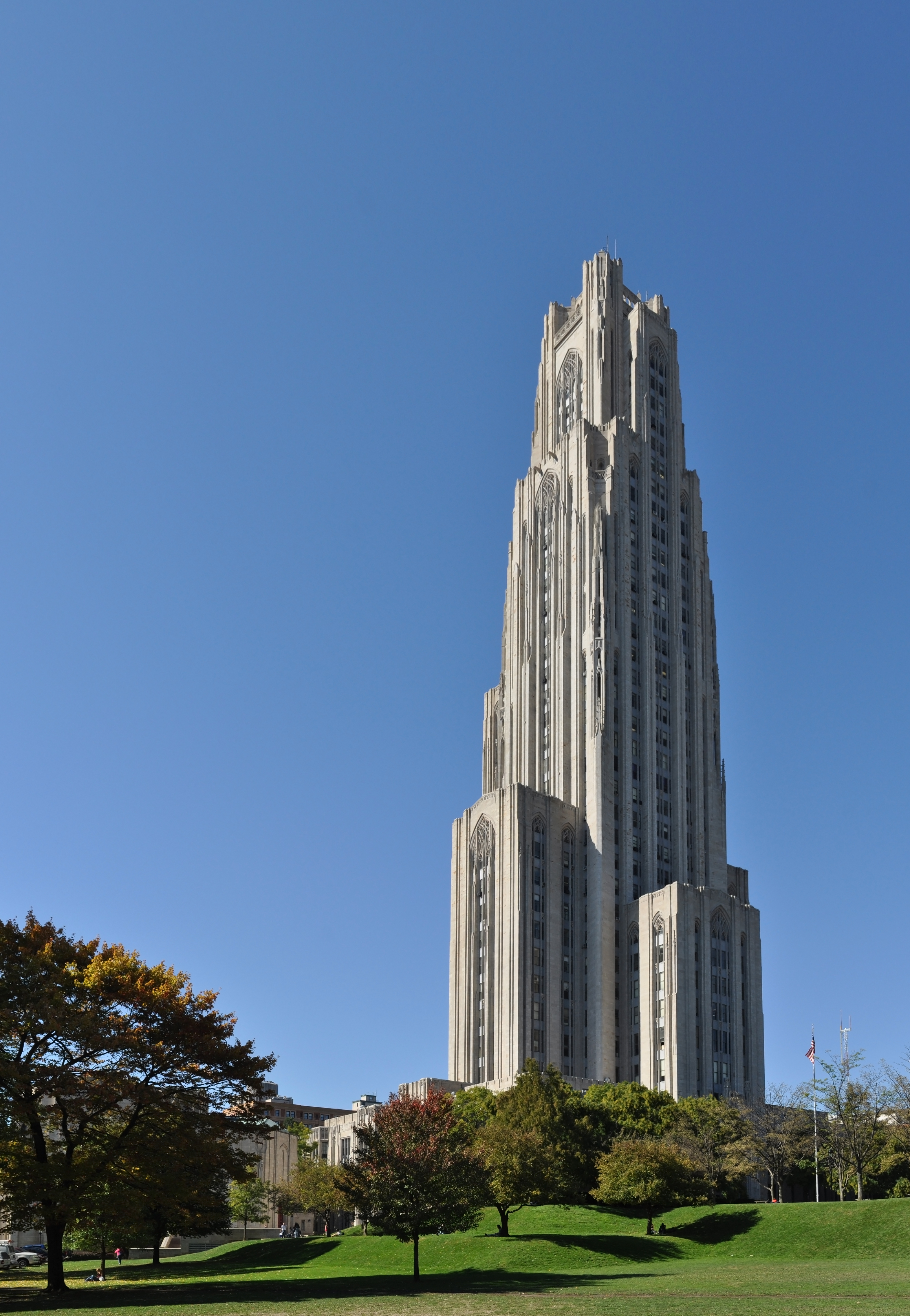 A photostitch of the Cathedral of Learning. "This is ... the angle that, according to architectural historian Franklin Toker, best reveals its Gothic tracery, setbacks and corner pinnacles. (see p. 85 of Pittsburgh: An Urban Portrait)"— Crazypaco, a member of WikiProject Pittsburgh who has an interest in architecture, discussing the Valued Image nomination